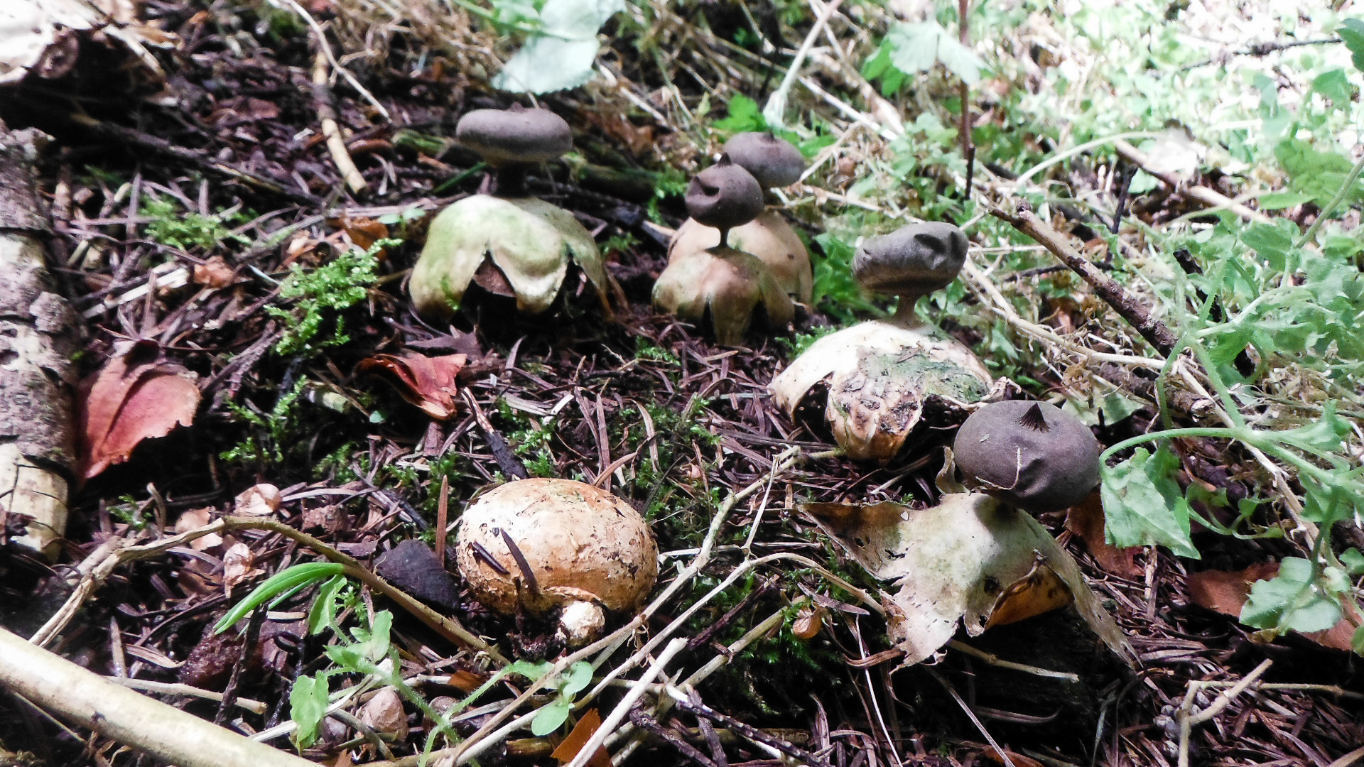 Geastrum pectinatum